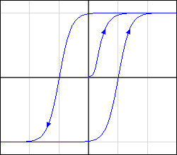 A hysteresis curve. Created by User:Omegatron using GraphCalc